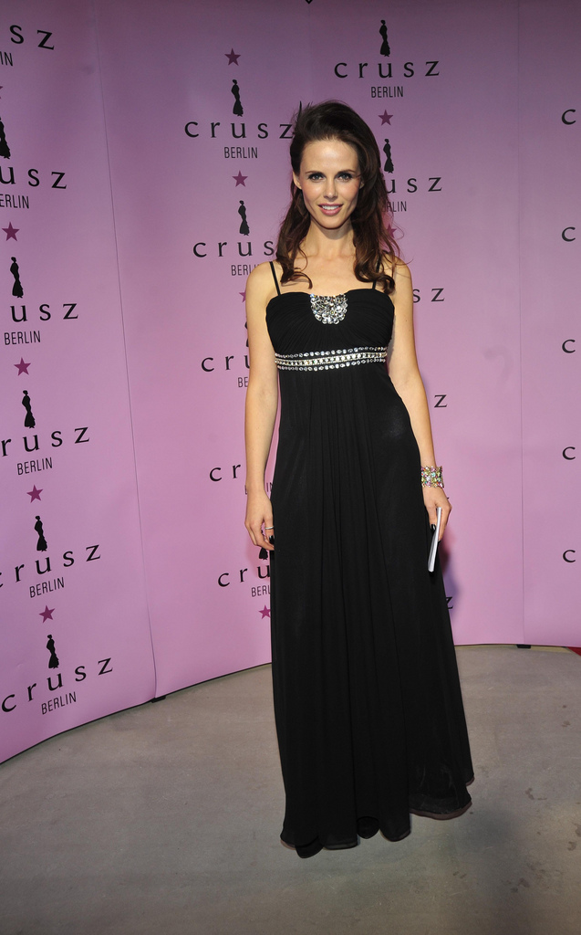 Claudia Bechstein; Opening crusz concept store